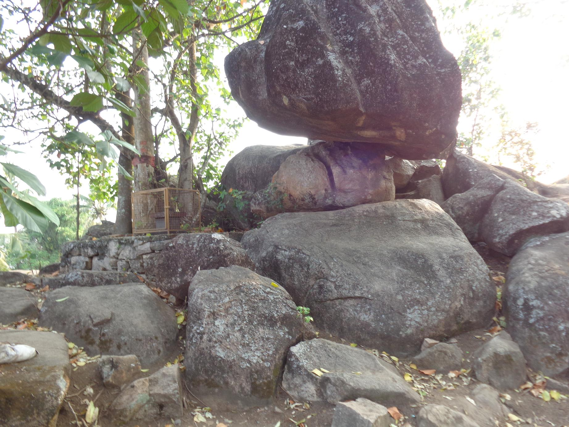 the padippura (gate way) at pandavan para